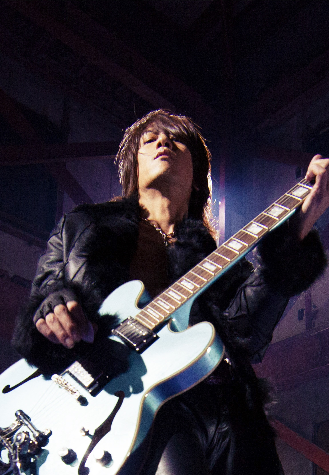 Photo of Michihiro Kuroda (aka Rin) in 2013